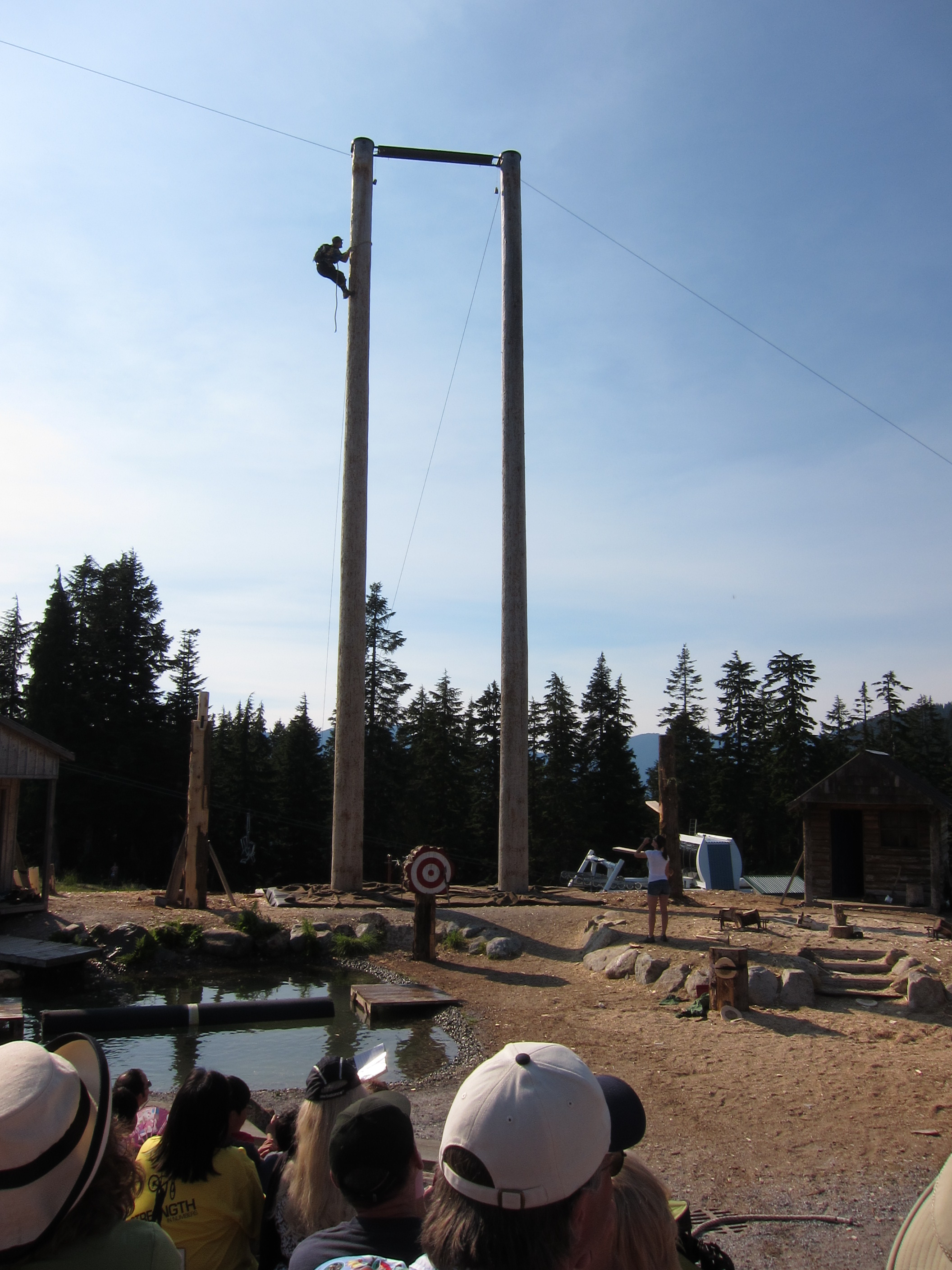 Nature & Parks